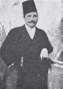 Portrait of bulgarian revolutionary from IMARO Stoyan Bozhov